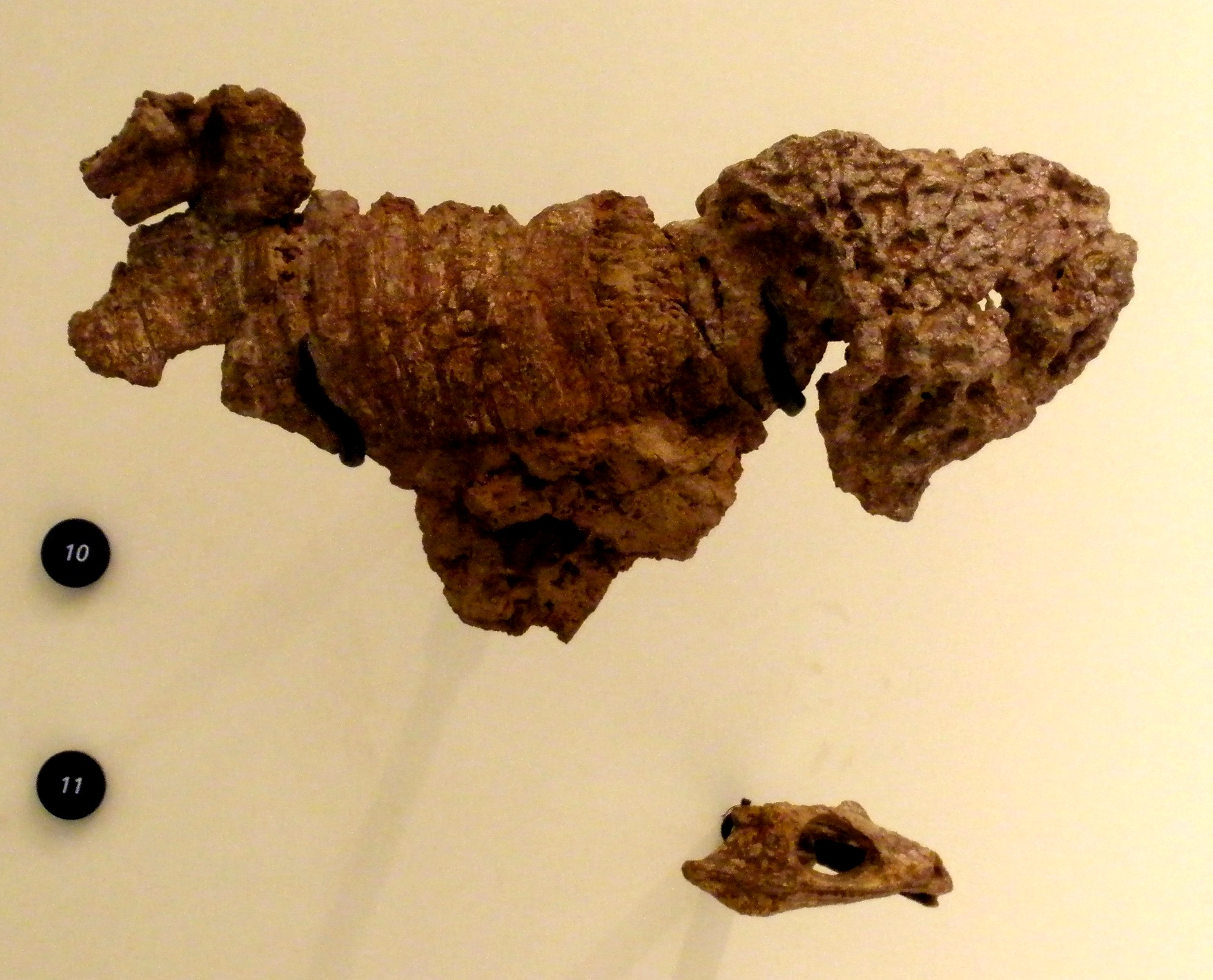 Skeleton of Dissorophus multicinctus, a fossil amphibian DateApril 2008Sourcetook the foto on the "American Museum of Natural History" in New YorkAuthorGhedoghedoPermission (Reusing this file) Skeleton of Dissorophus multicinctus, a fossil amphibian